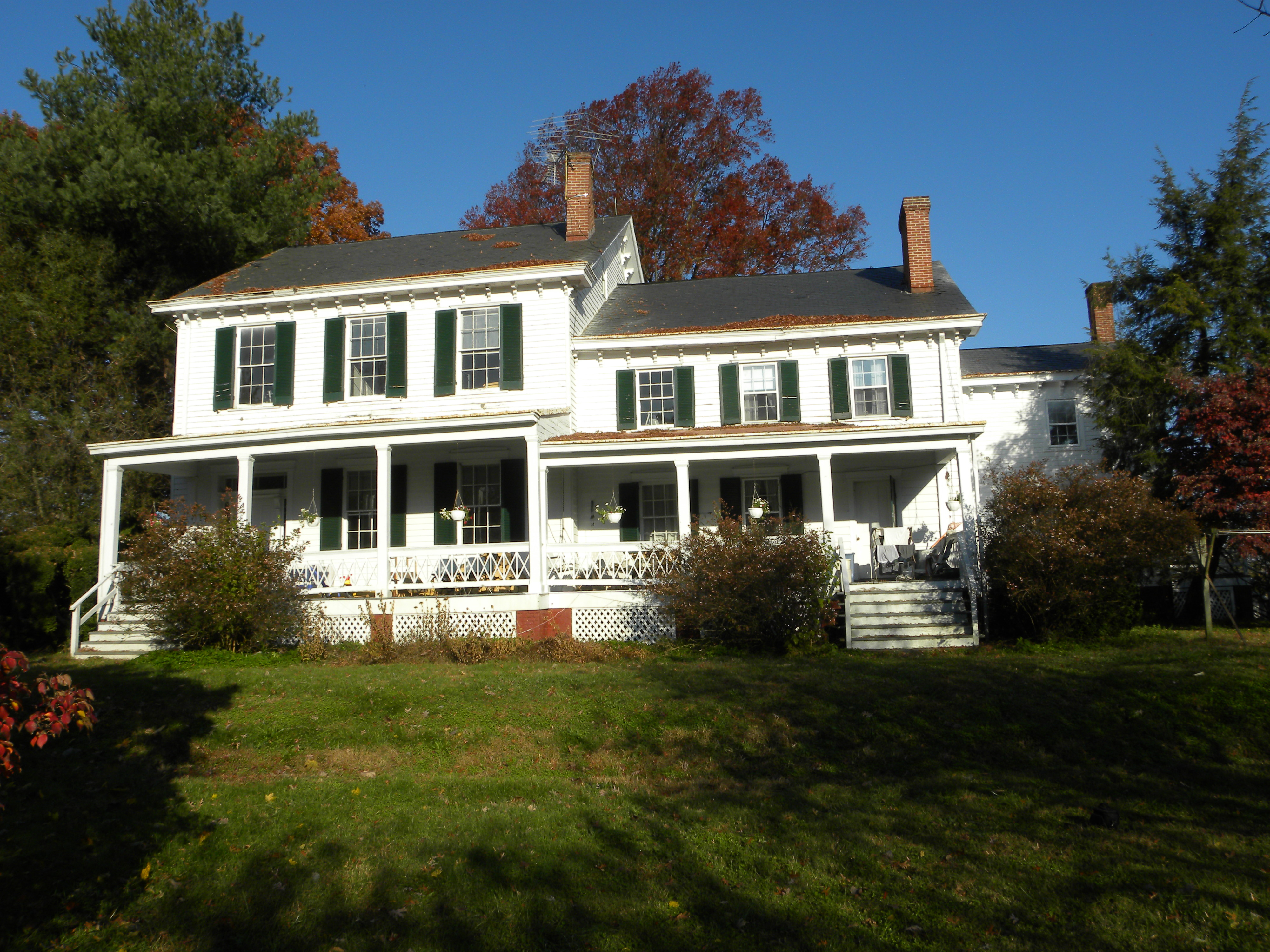 An image of the Cottage at Clagett Farm. The house was built in the 1840s by Charles Clagett.